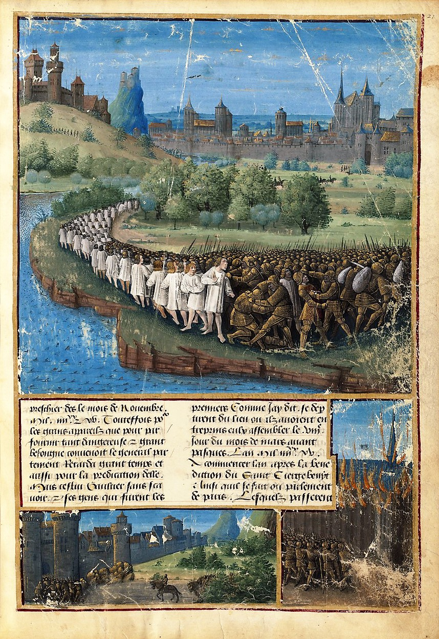 Medieval illuminated manuscript showing Peter the Hermit's People's Crusade of 1096